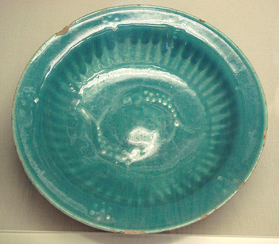 Abbasid celadon bowl, Vietnam, 940-950.